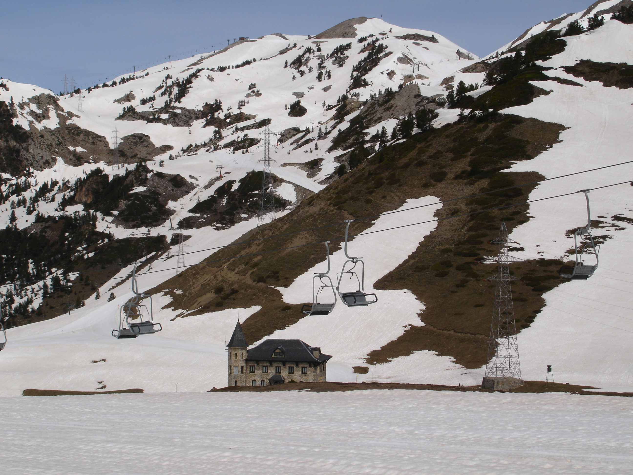 Port of La Bonaigua (Pallars Sobirà, Lleida)(Catalonia, Spain)